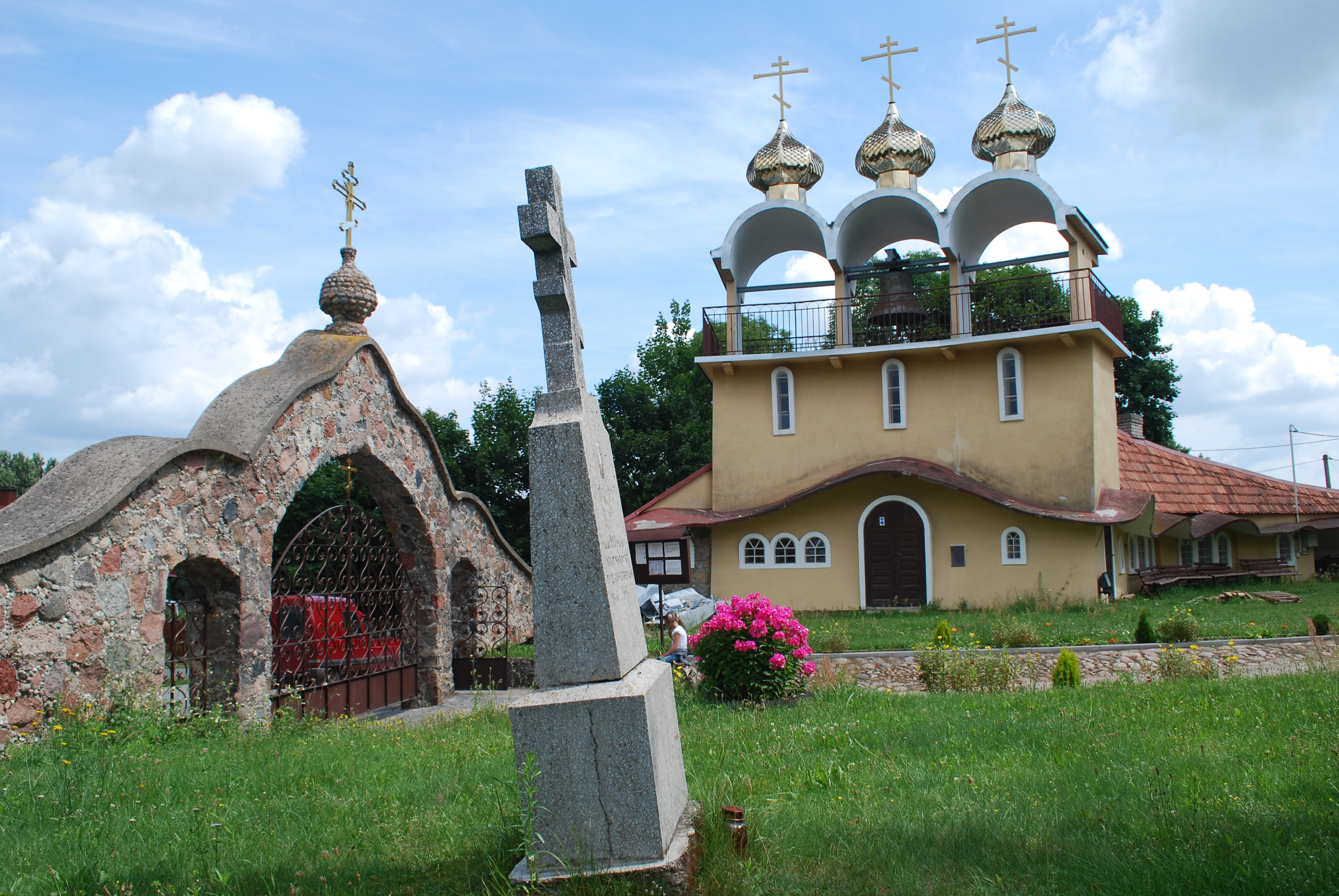 This photo from Podlaskie Voievodeship was taken during Polish Wikiexpedition 2009 set up by Wikimedia Polska Association. The making of this document was supported by Wikimedia Polska. Cerkiew w Jałówce, Gmina Michałowo.